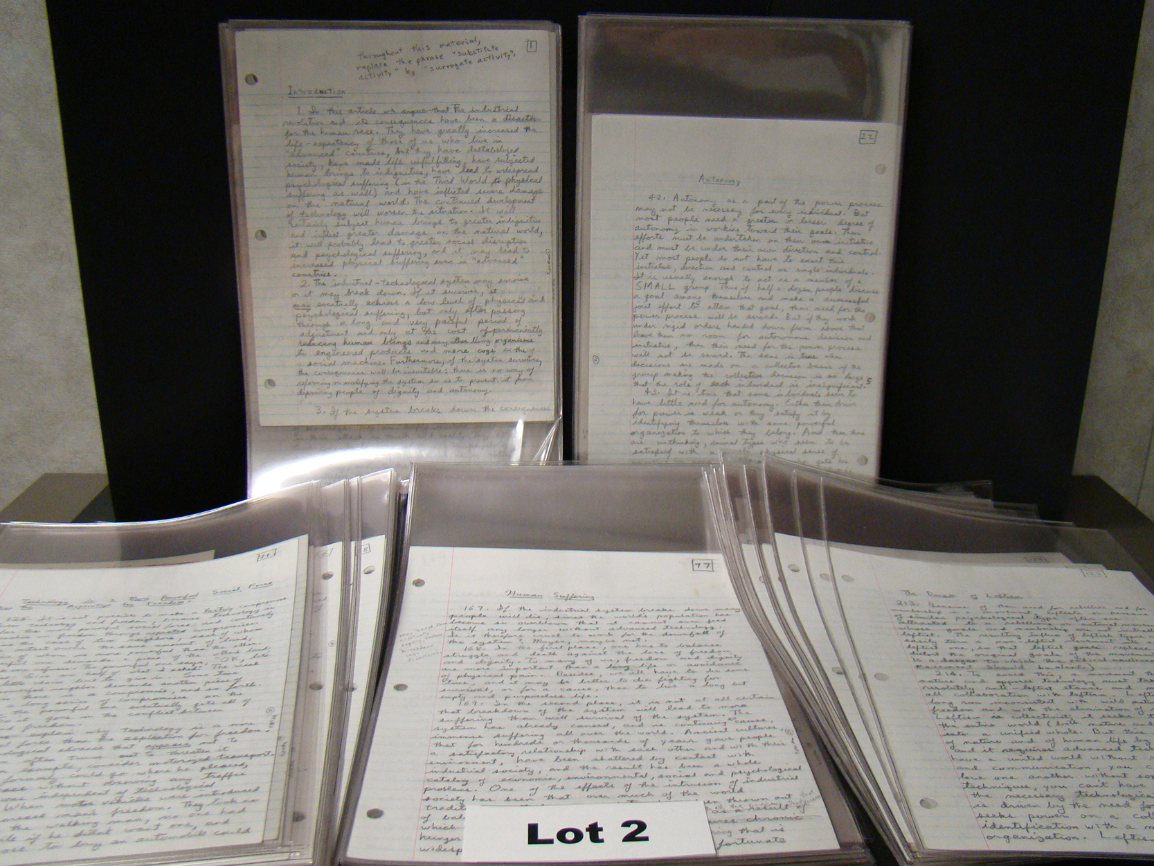 This photo, released by the U.S. Marshals Service, displays one of the lots being sold in an online auction of the personal effects of Ted Kaczynski, aka the “Unabomber.” The U.S. Marshals auction will run from May 18 through June 2. Proceeds from the auction will be used to compensate Kaczynski’s victims. For more information, see the U.S. Marshals news release at (U.S. Marshals photo) Description: This is Kaczynski's handwritten rough draft of the "Unabom Manifesto," which was ultimately published in 1995 in the Washington Post and New York Times.